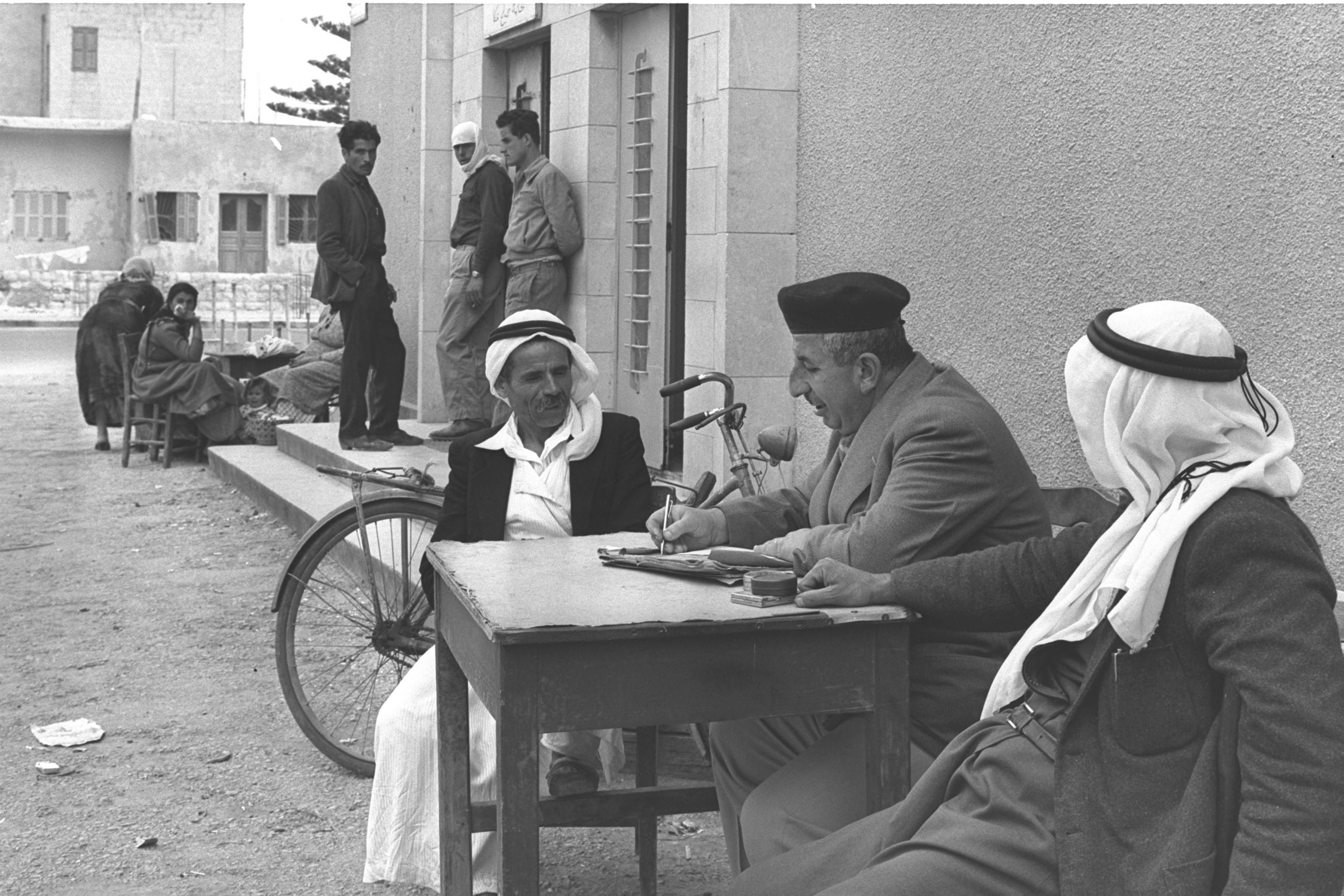 Rashid Sidki Arabtani, a Scrivener in Hebrew and Arabic at the entranceto the Magistrates Court in Acre.